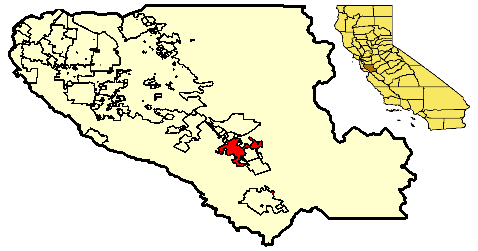 Morgan Hill highlighted in the map of Santa Clara County, California, USA, with County highlighted in California. Created using data from United States Census Bureau.